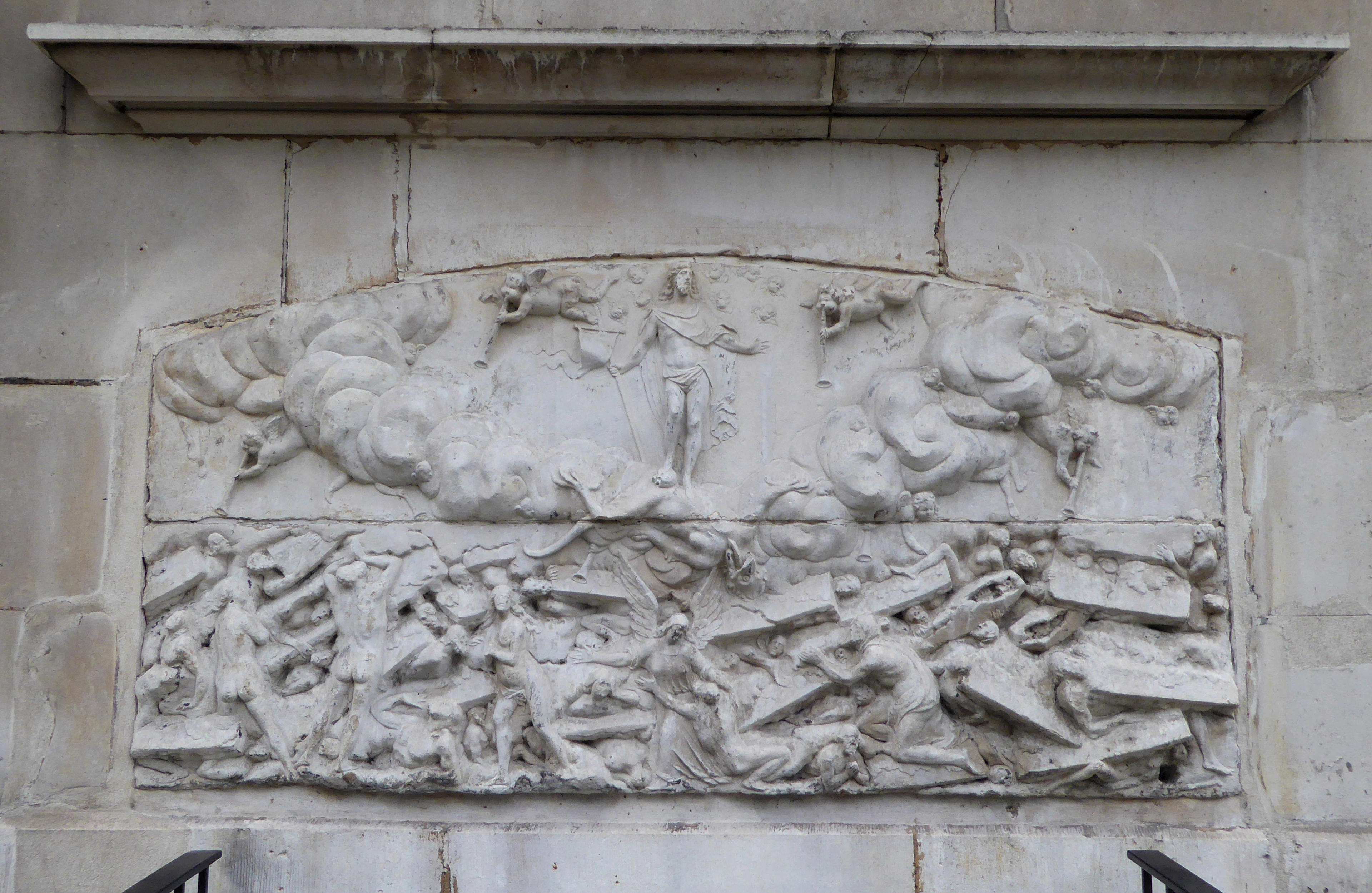 External sculptural detail on the Church of St Andrew in Holborn, City of London. The image depicts the Day of Judgement.